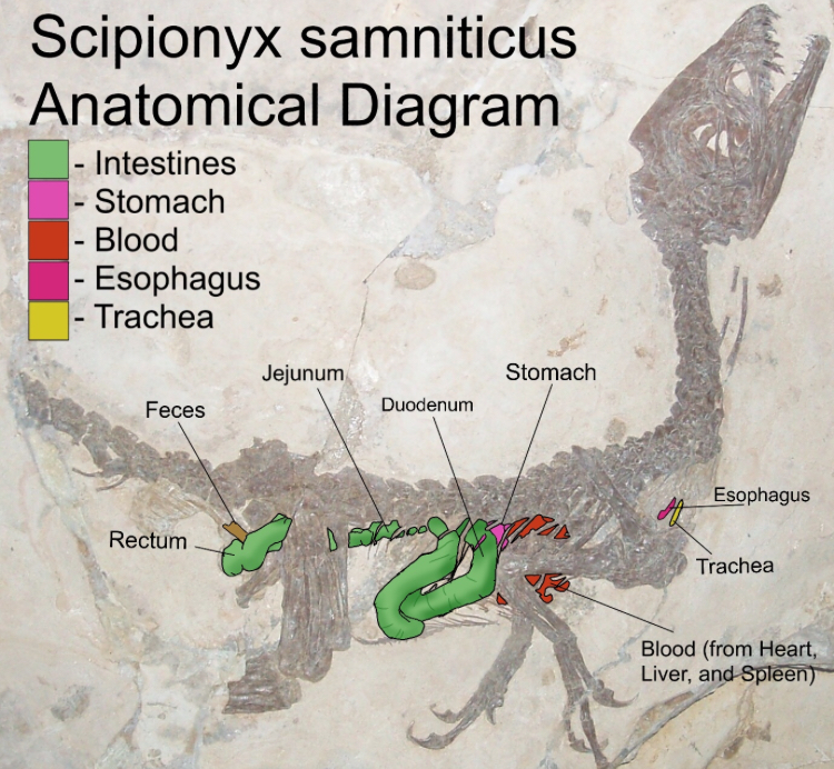 A speculative anatomical diagram of Scipionyx. The lungs, crop and kidneys are not preserved in the fossil, but inferred from extant bird anatomy.